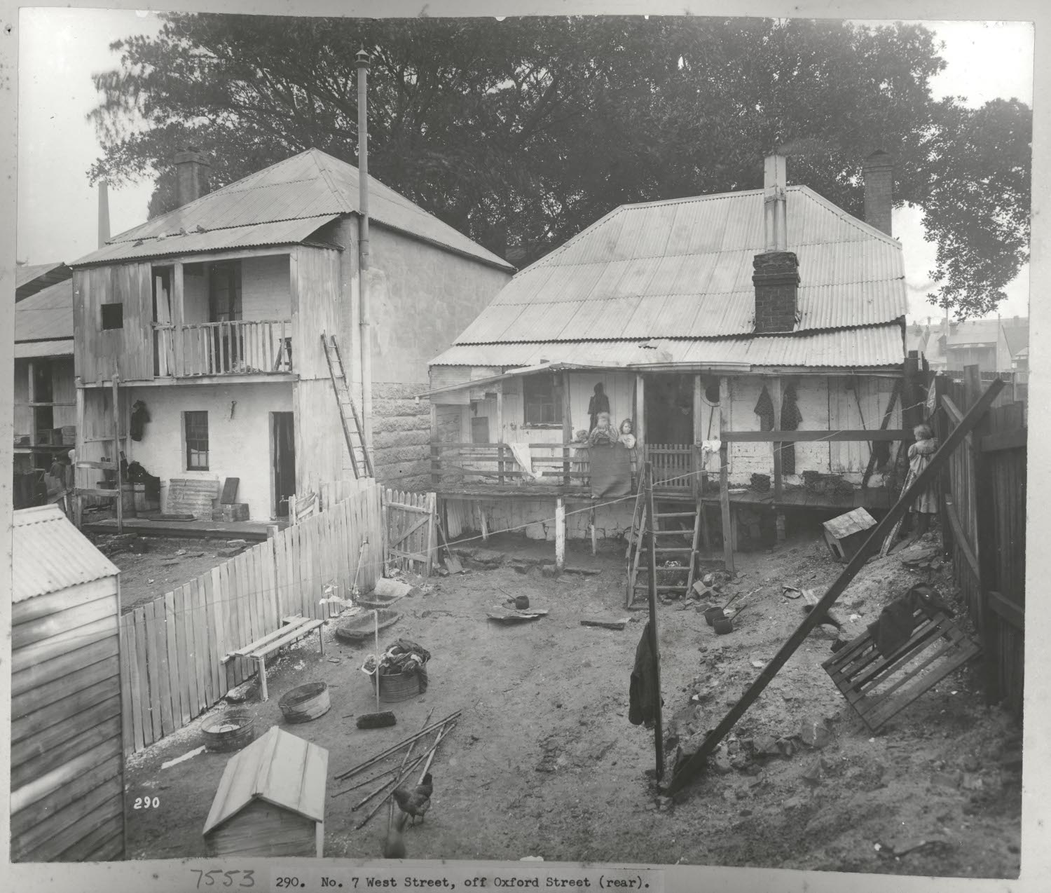 From a series of images showing the areas in Sydney affected by the outbreak of Bubonic Plague in 1900. Taken by Mr. John Degotardi, Jr., photographer from the Department of Public Works, the images depict the state of the houses and 'slum' buildings at the time of the outbreak and the cleansing and disinfecting operations which followed. Title: Rear of No.7 West Street, off Oxford Street, Sydney (NSW) Dated: c. 17/07/1900 Digital ID: 12487_a021_a021000016 Rights: We'd love to hear from you if you use our photos/documents. Many other photos in our collection are available to view and browse on our website using Photo Investigator.